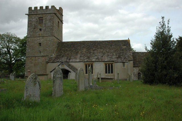 Llanover Church Llanover church is dedicated to St Barthlolomew.